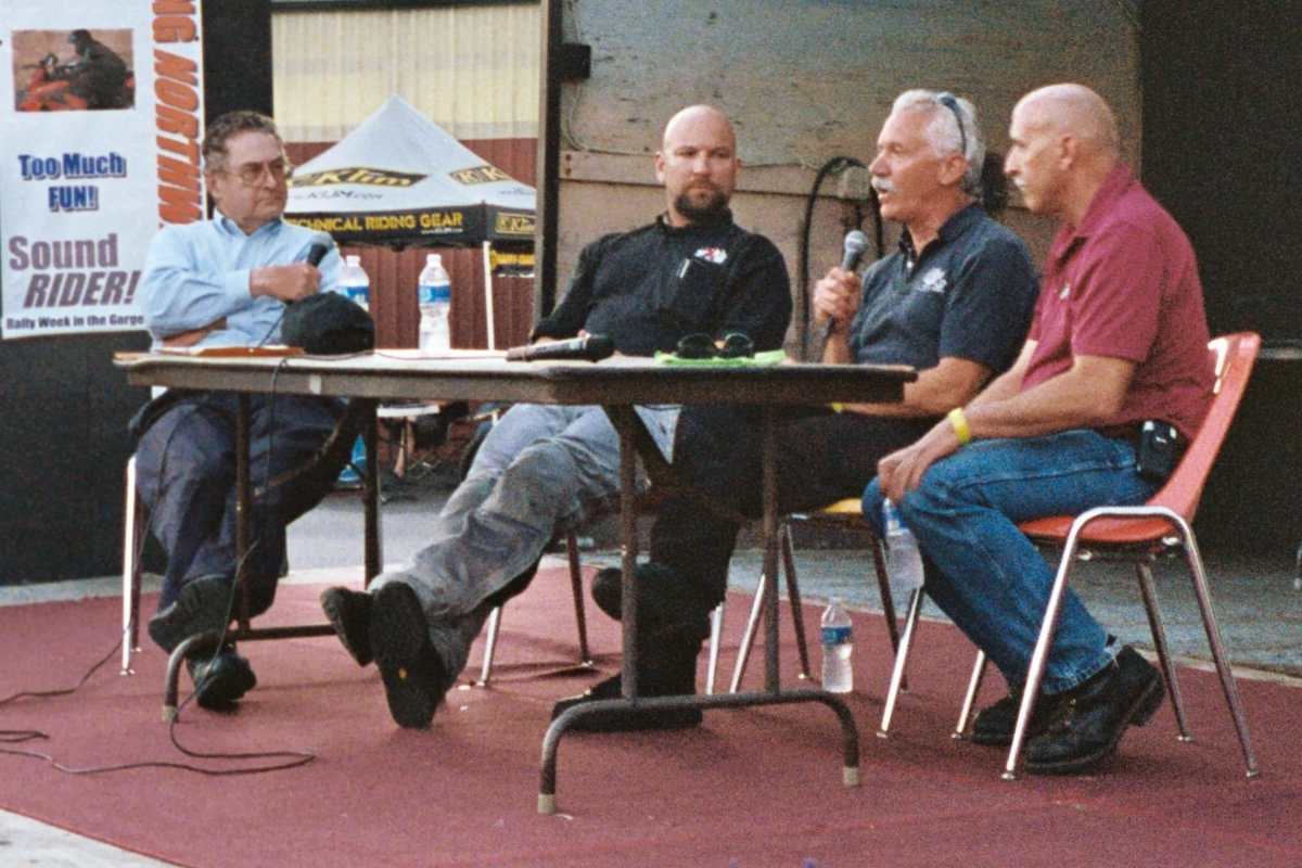 Sportbike Northwest 2011 motorcycle safety panel. David L. Hough, left. Second from left, Stacey Axemaker of the Idaho Star motorcycle safety training program.